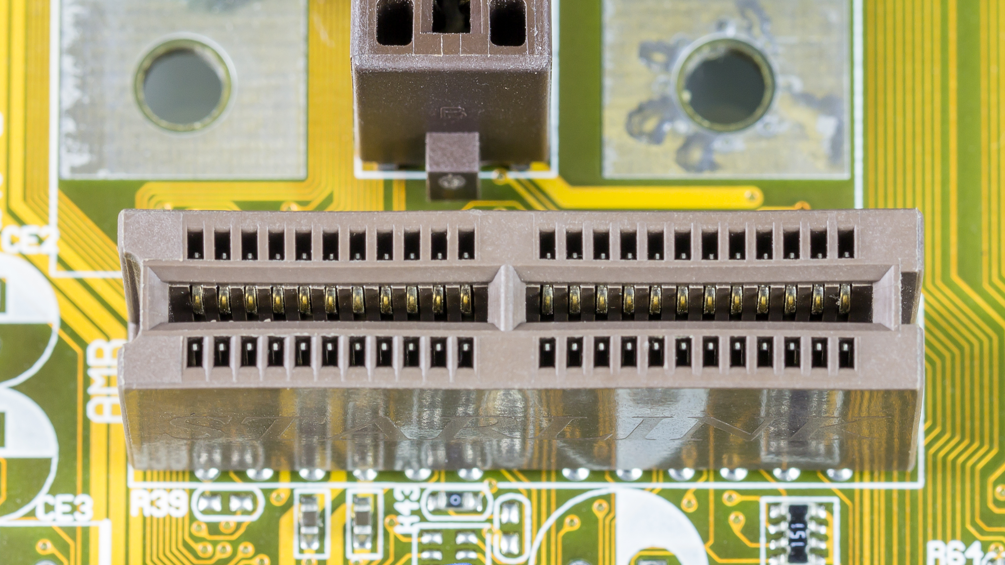 Asus P3C2000 - AMR slot